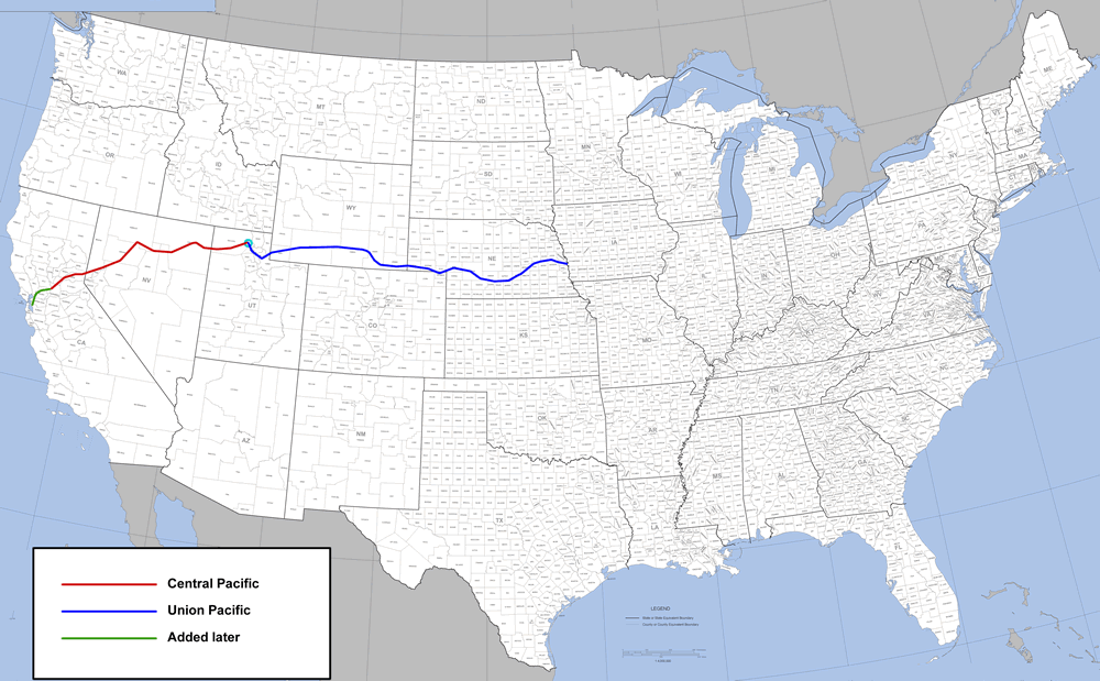 Map of the route of the First Transcontinental Railroad. Crossing the Western United States to/from California. Built in the 1860s, and opening in 1869. Central Pacific (red line) Union Pacific (blue line) Western Pacific (green line)